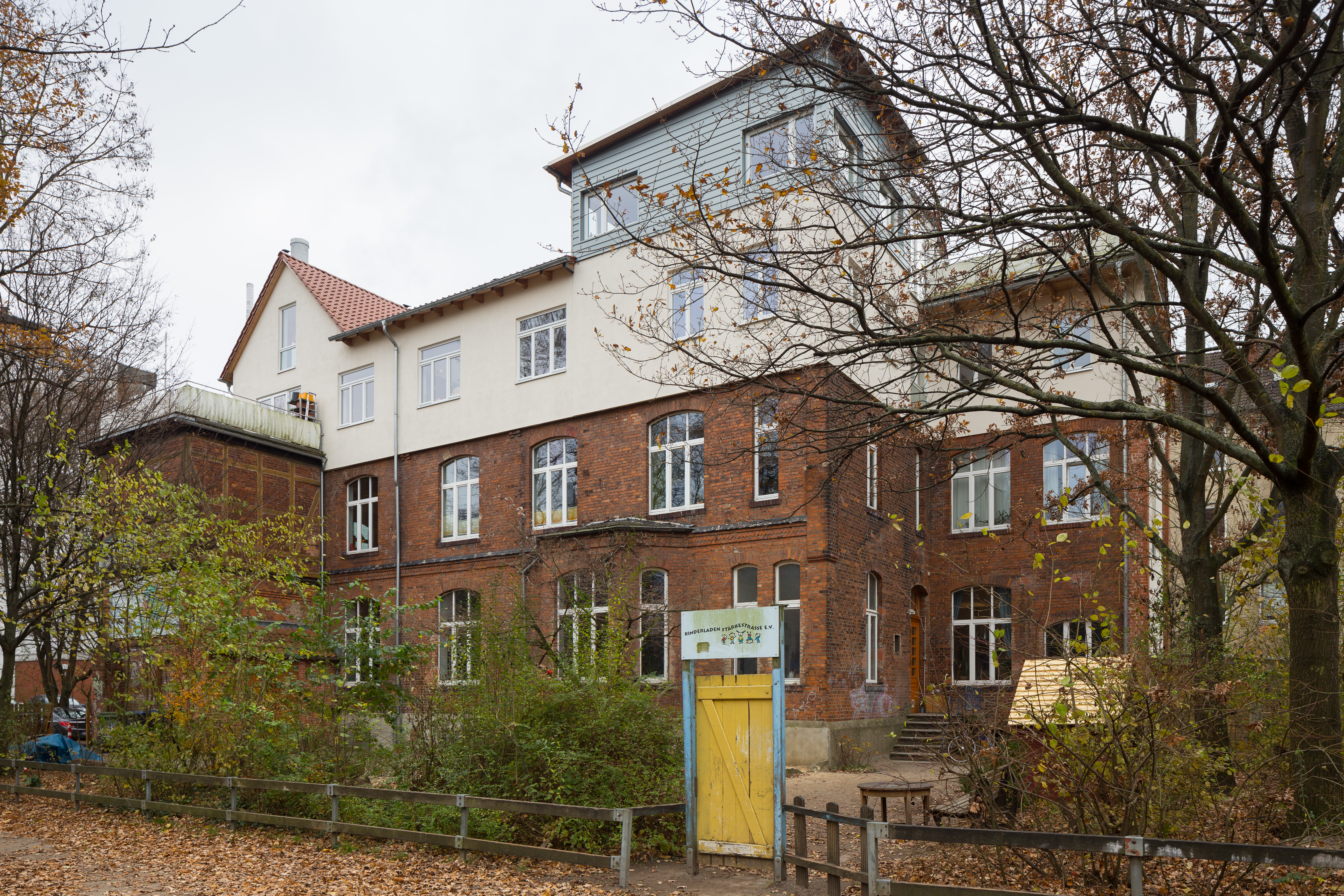 Former factory building of Mittelland Gummiwerke rubber company located at Staerkestrasse no. 15 in Linden-Nord district of Hannover, Germany.